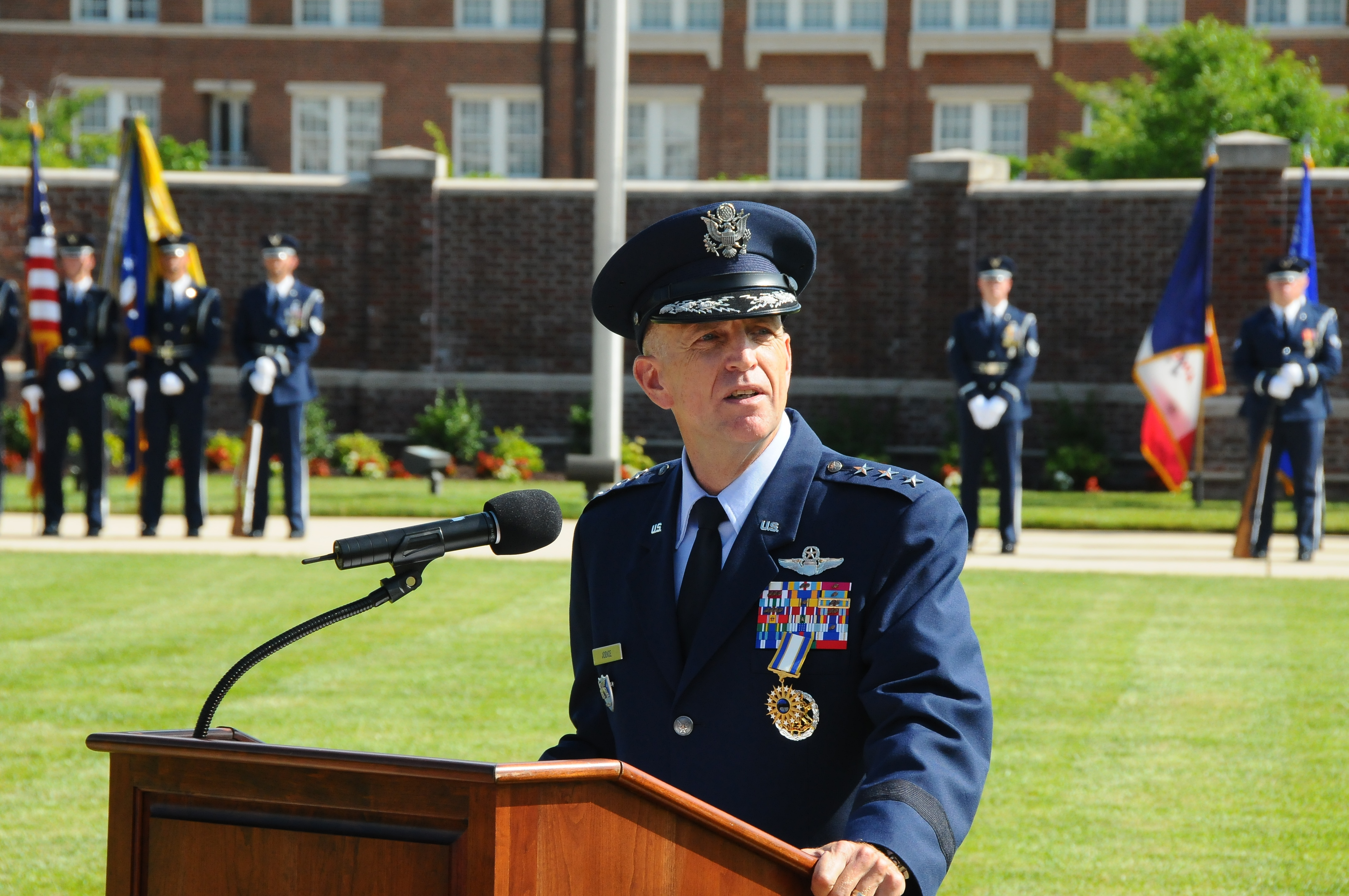 Lt. Gen. Ralph Jodice II addresses the crowd gathered for his retirement ceremony June 28 on Joint Base Anacostia-Bolling. Jodice retires after serving his country for more than three decades.